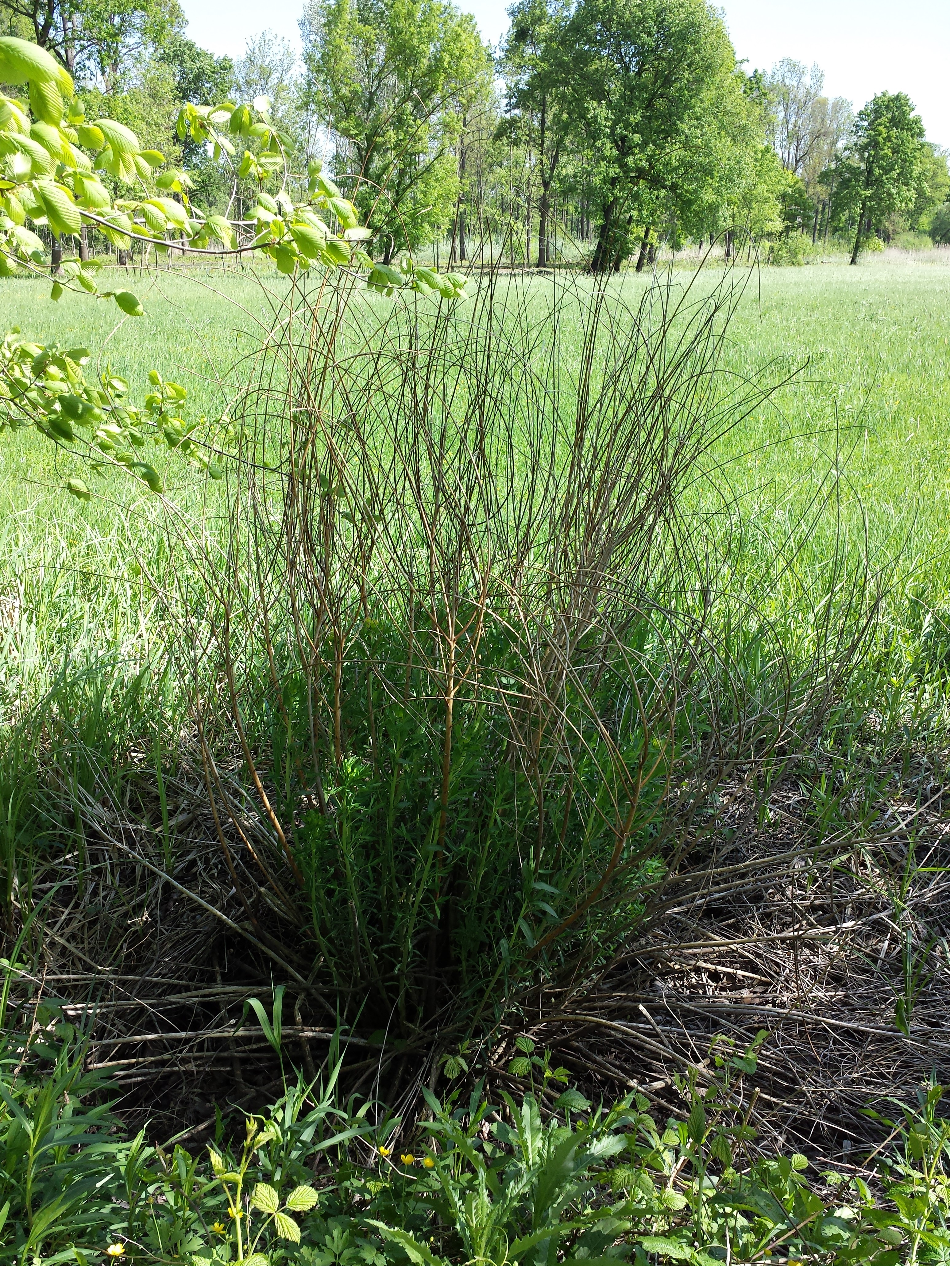 Habitus with died stipes of previous year Taxon: Euphorbia palustris (sensu Fischer et al. EfÖLS 2008 ISBN 978-3-85474-187-9; det. M. A. Fischer 2014-05-04) Location: Ringelsdorf, district Gänserndorf, Lower Austria - ca. 150 m a.s.l. Habitat: flood plain